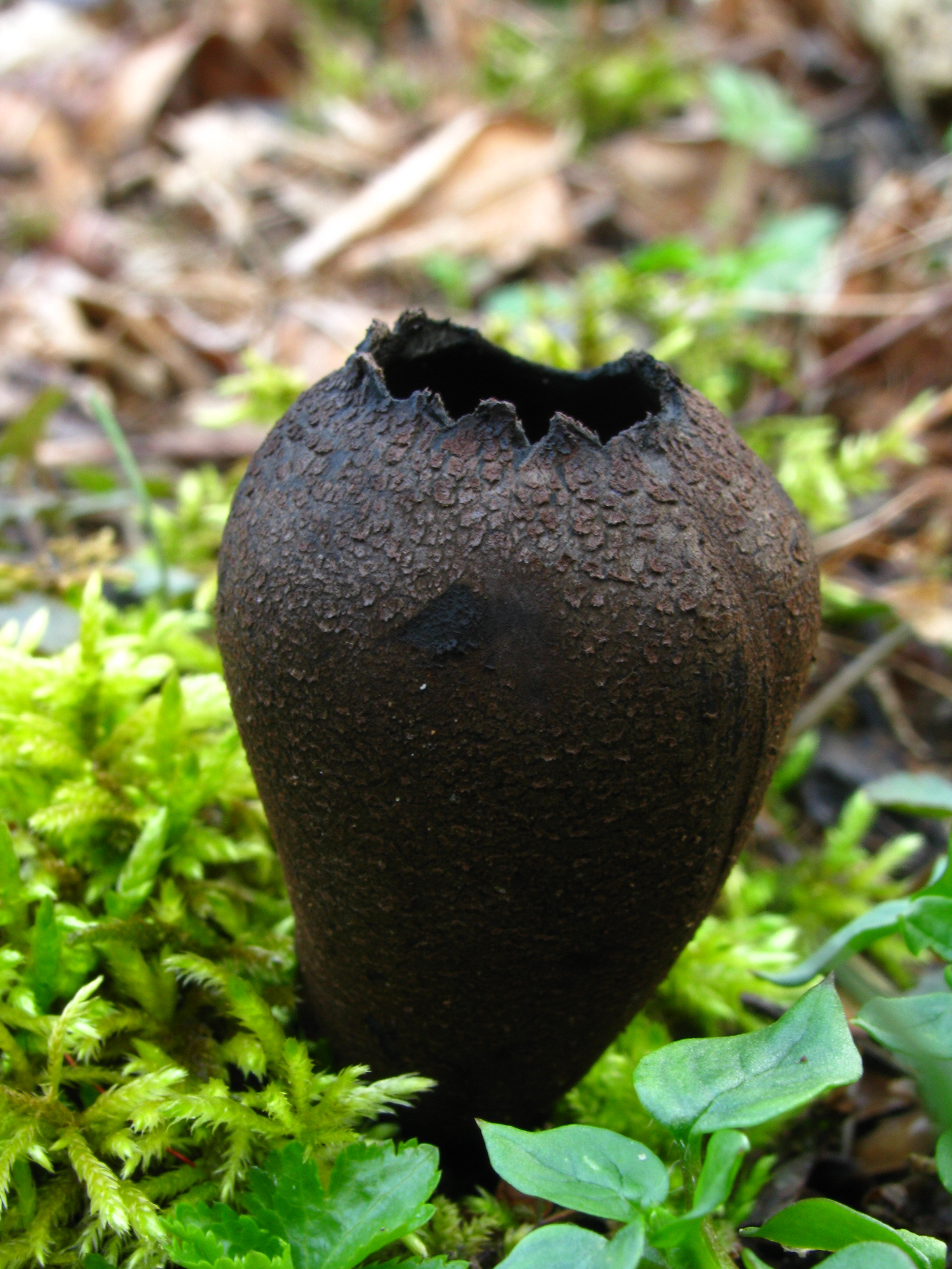 Urnula craterium (Schweinitz) Fries Image location: Egypt Valley Wildlife Area, Belmont Co., Ohio, USA Recognized by sight For more information about this, see the observation page at Mushroom Observer.